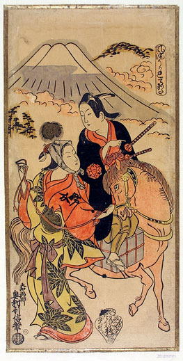 Okumura Toshinobu (active 1717-50), 'Young Lovers by Mount Fuji', About 1720, Urushi-e (laquer print) Signature: Yamato-eshi Okumura Toshinobu hitsu, Seal: Okumura Publisher: Izumiya Gonshirô V&A Museum no. E.1419-1898